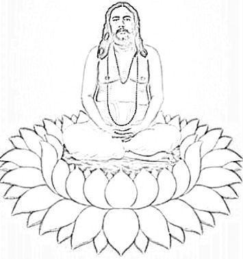 Sadguru Nigamananda